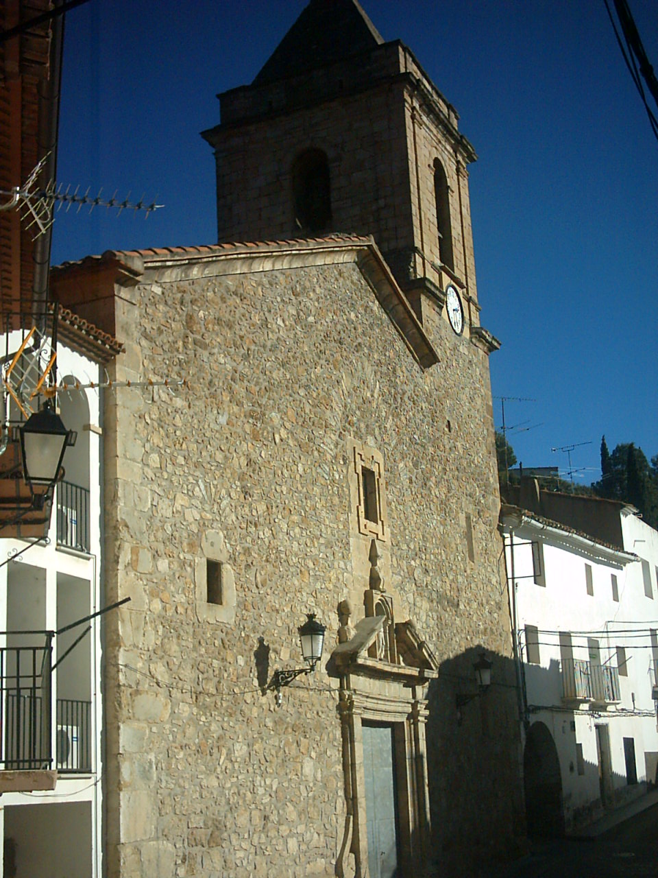 Fachada de la iglesia del Castillo de Villamalefa